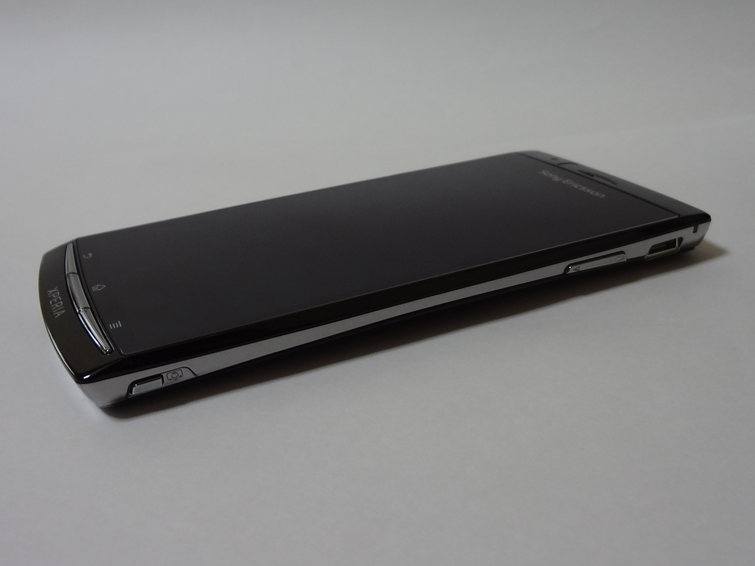 XPERIA X12